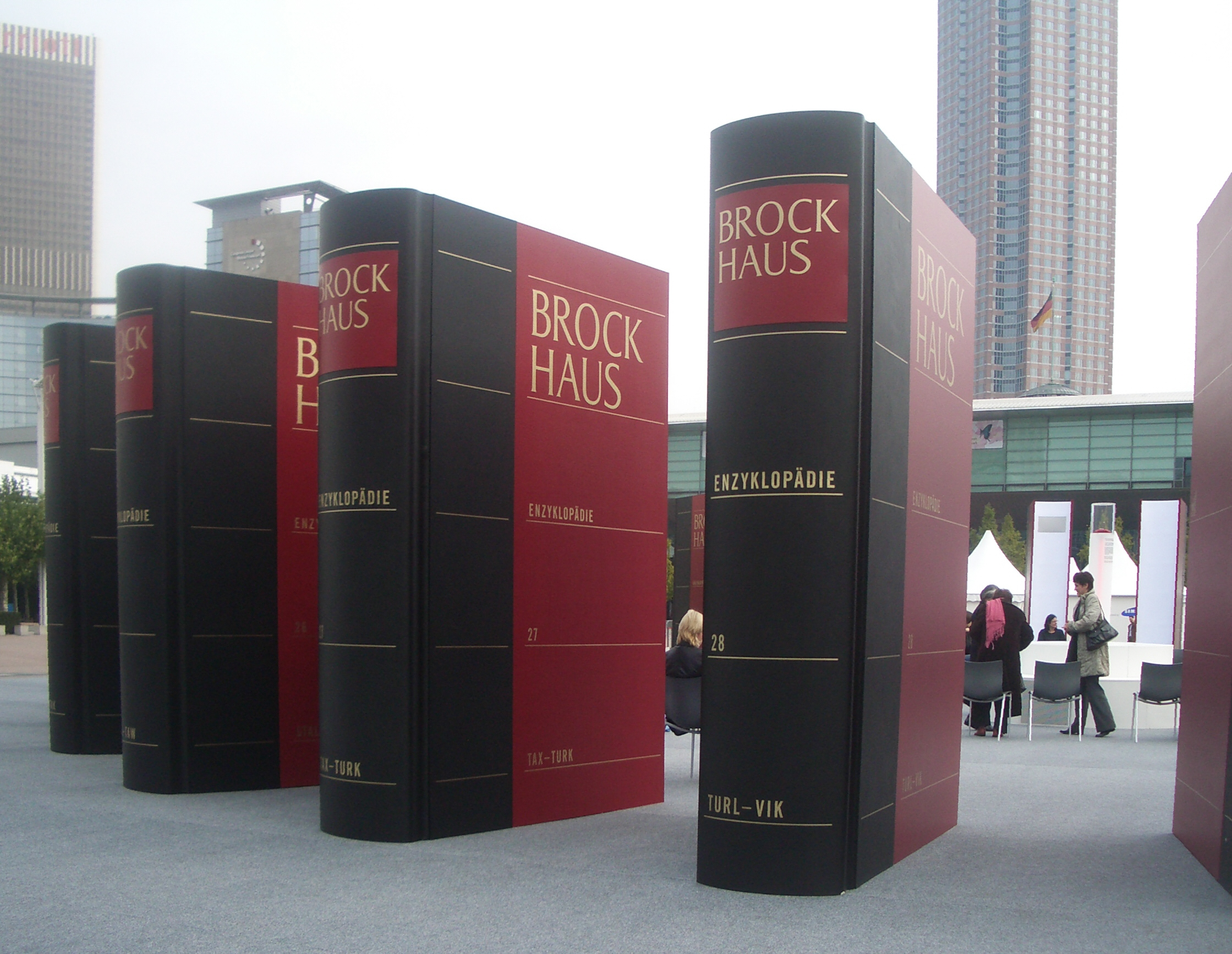 Brockhaus PR installation (nicknamed "Brockhenge" in the German press) at the Frankfurt Bookfair, October 2005